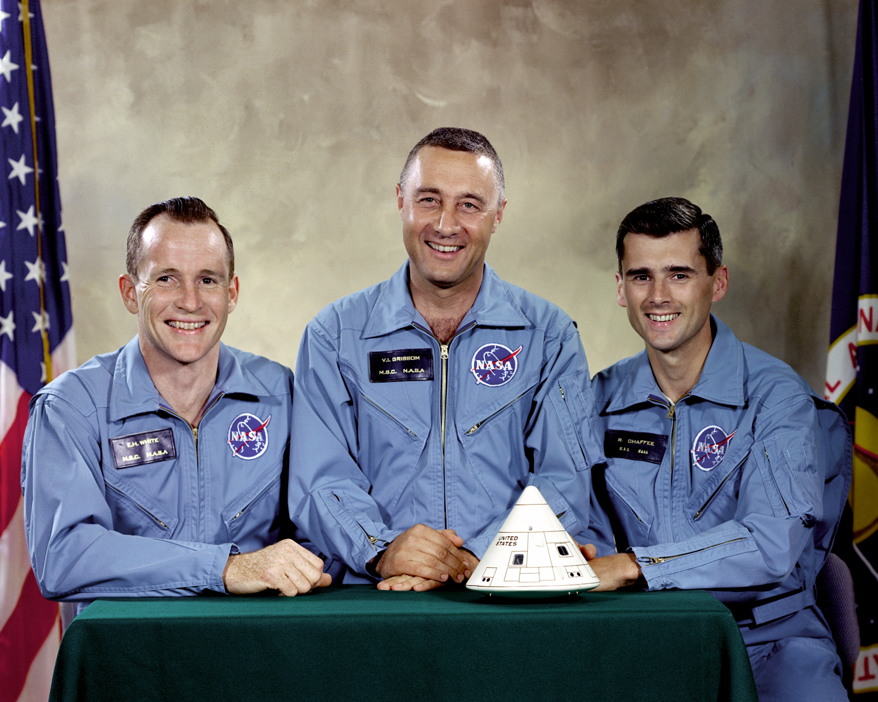 Portrait of the Apollo 1 prime crew for first manned Apollo space flight. From left to right are: Edward H. White II, Virgil I. "Gus" Grissom, and Roger B. Chaffee. On January 27, 1967 at 5:31 p.m. CST (6:31 local time) during a routine simulated launch test onboard the Apollo Saturn V Moon rocket, an electrical short circuit inside the Apollo Command Module ignited the pure oxygen environment and within a matter of seconds all three Apollo 1 crewmembers perished.